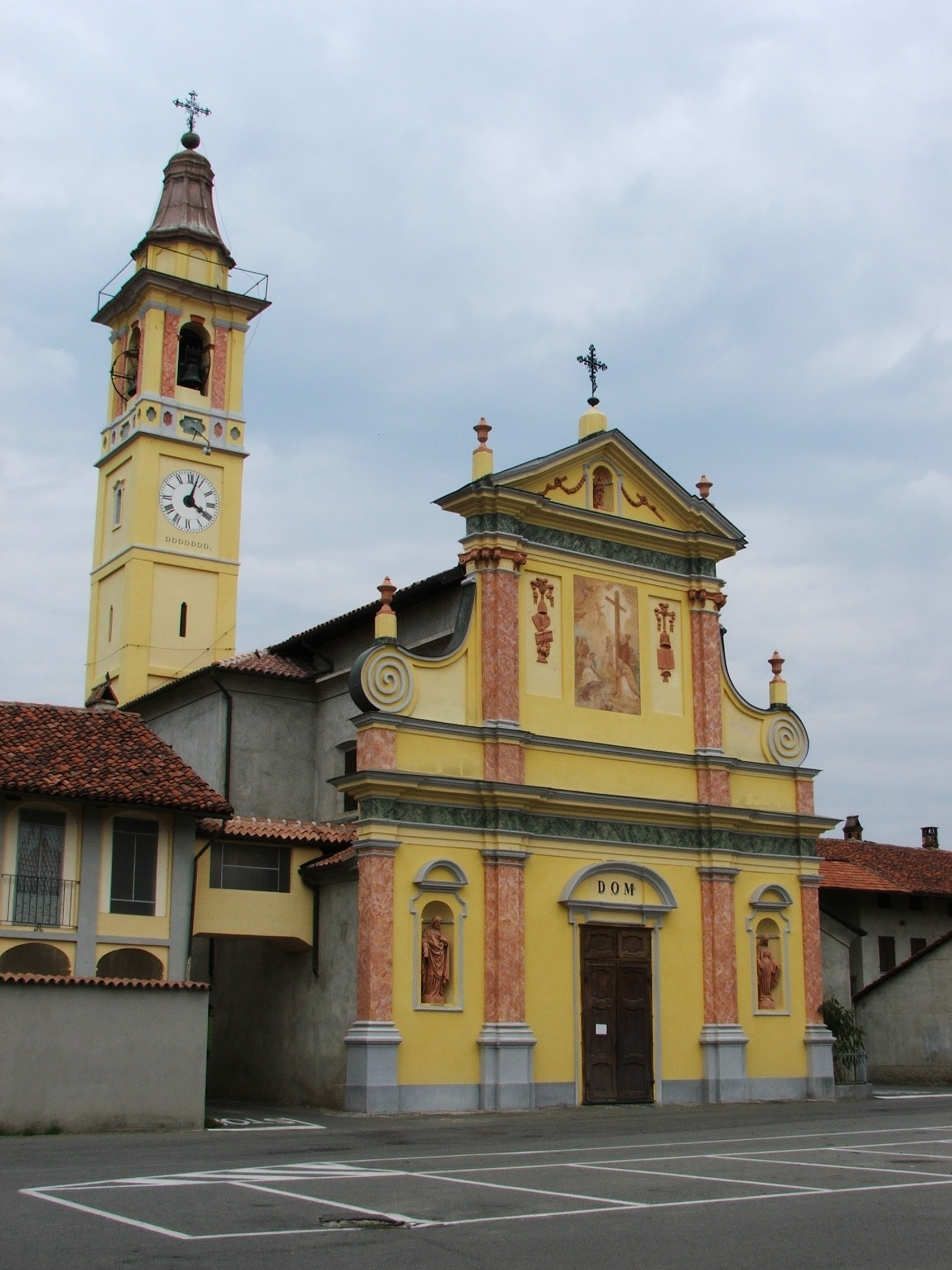 Church of Rodallo